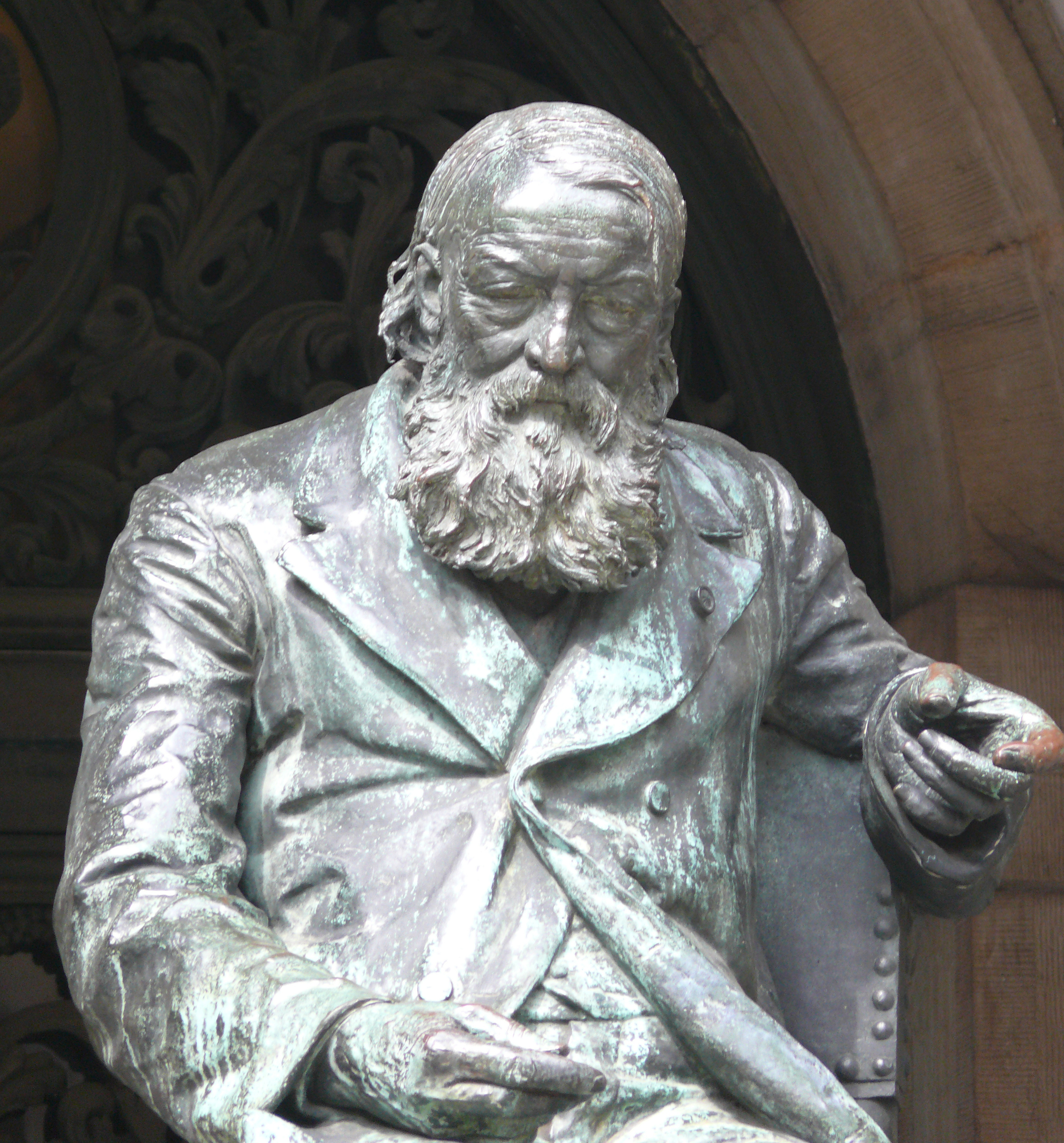 Statue of Hendrik Conscience (1883) by Frans Joris in front of the Erfgoedbibliotheek in Antwerp